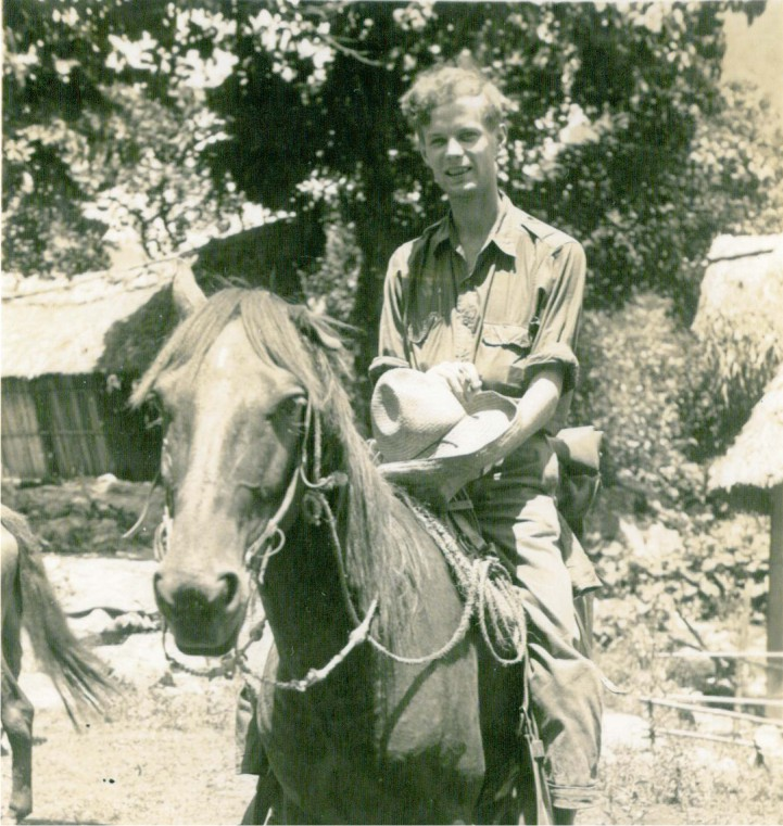 Jean Bassett Johnson. Taken on a trip to the Mazateca (Oaxaca, Mexico) in 1938.